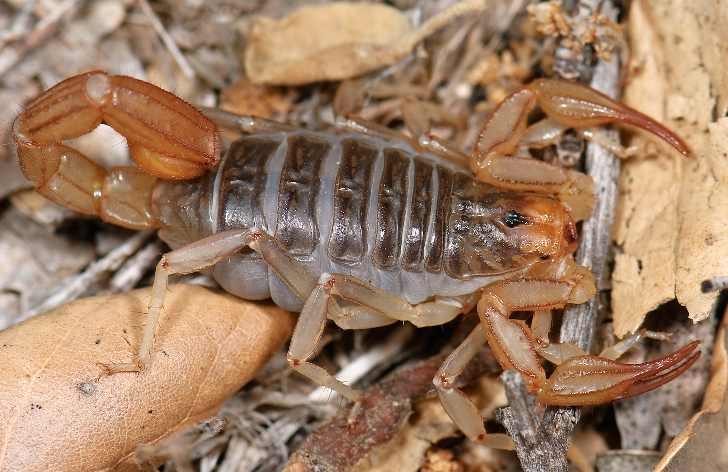 found under log in oak-dominated canyon bottom, imaged in situ..